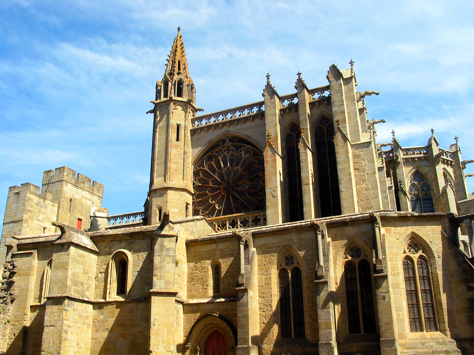 Carcassonne (Aude - France), the St. Nazaire basilica (XI/XII/XIXth centuries)